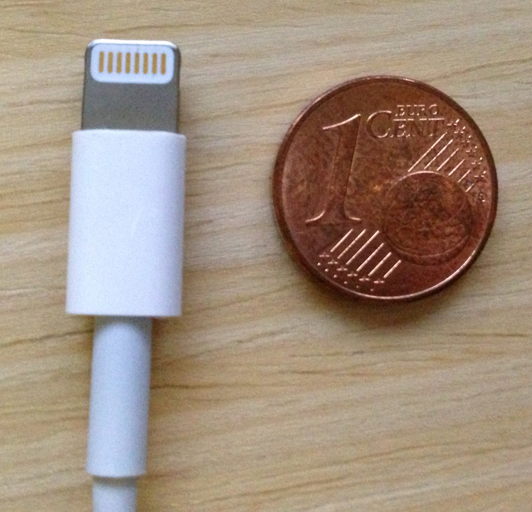 Lightning connector compared with 1eurocent